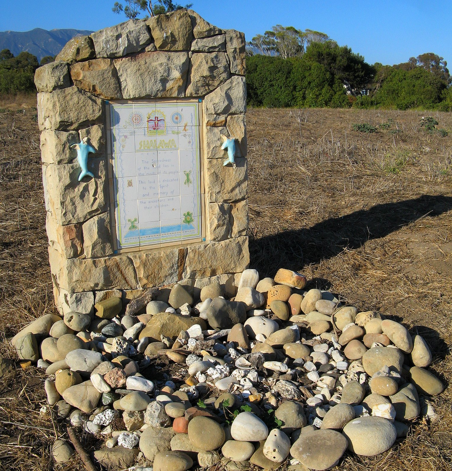 The Shalawa Meadow archaeological site, and commemorative stone monument. The seaside meadow was used in ancient times as a burial site by the Chumash people. Located near the Coast Village district of Montecito, south of and near Santa Barbara, California.